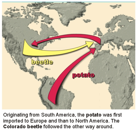 Colorado potato beetle, distribution